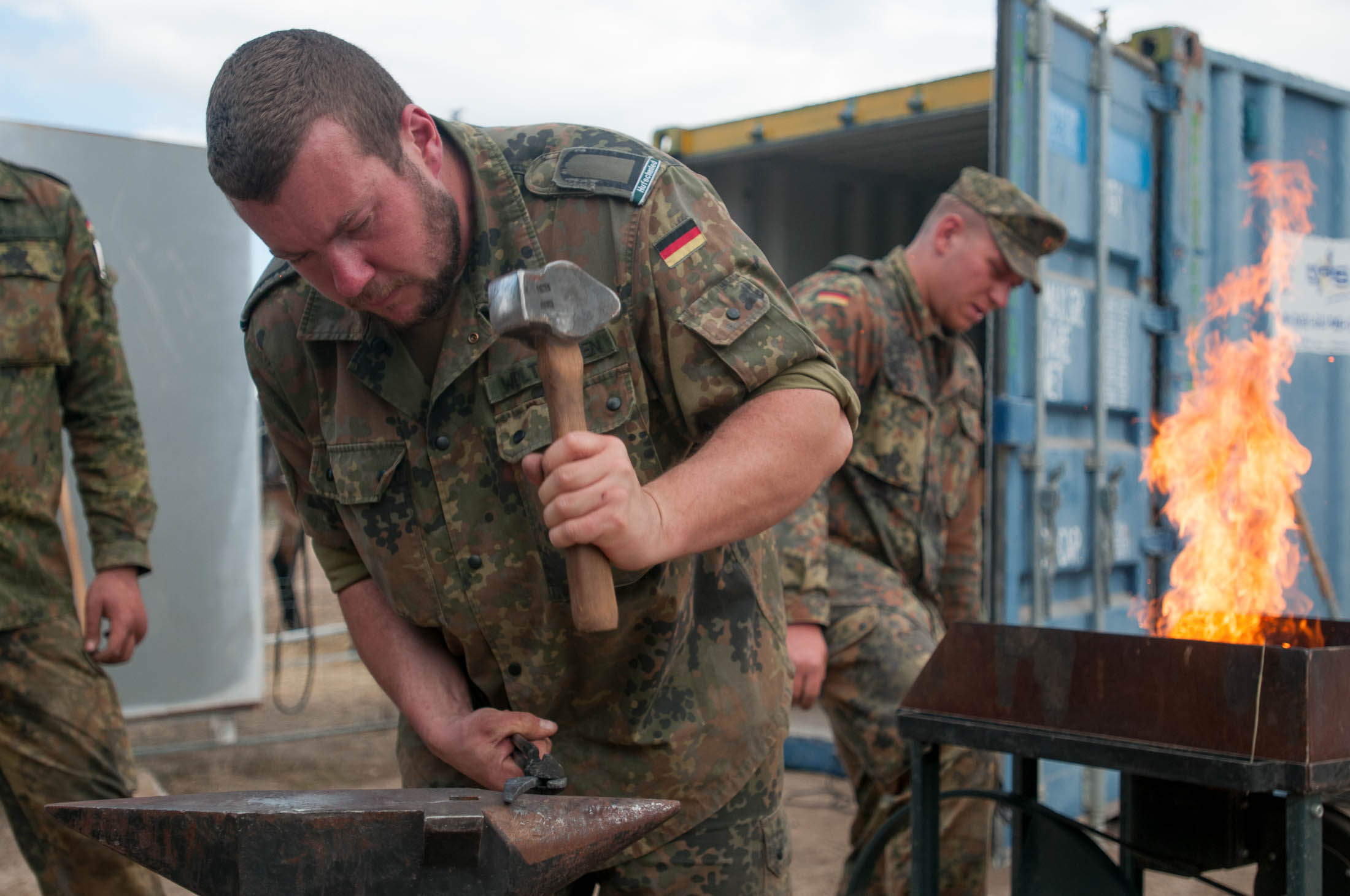 Soldiers of 64th Medical Detachment Veterinary Specialty Services, 421st Multifunctional Medical Battalion, with veterinarians from Spanish Army’s Agrupacion de Sanidad 3 visit the Mountain Infantry Battalion 233 Bundeswehr at Trident Juncture 2015 in San Gregorio, Spain (U.S. Army photo by Capt. Jeku Arce 30th Medical Brigade Public Affairs).